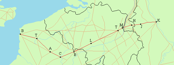 Map of Roman road Via Belgica